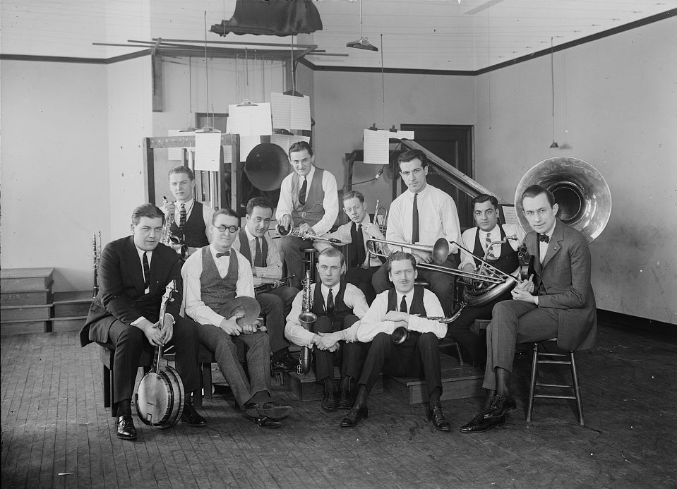 Paul Specht (1895-1954) and his orchestra in a recording studio. Musicians include Chauncey Morehouse (drums; holding cymbal), Frank Guarente (trumpet; next to Morehouse) and Arthur "The Baron" Schutt (piano; holding saxophone(!) in the middle of the back row). Specht himself is to the extreme right.